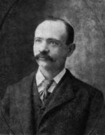 Portrait of New York state senator John A. Hawkins